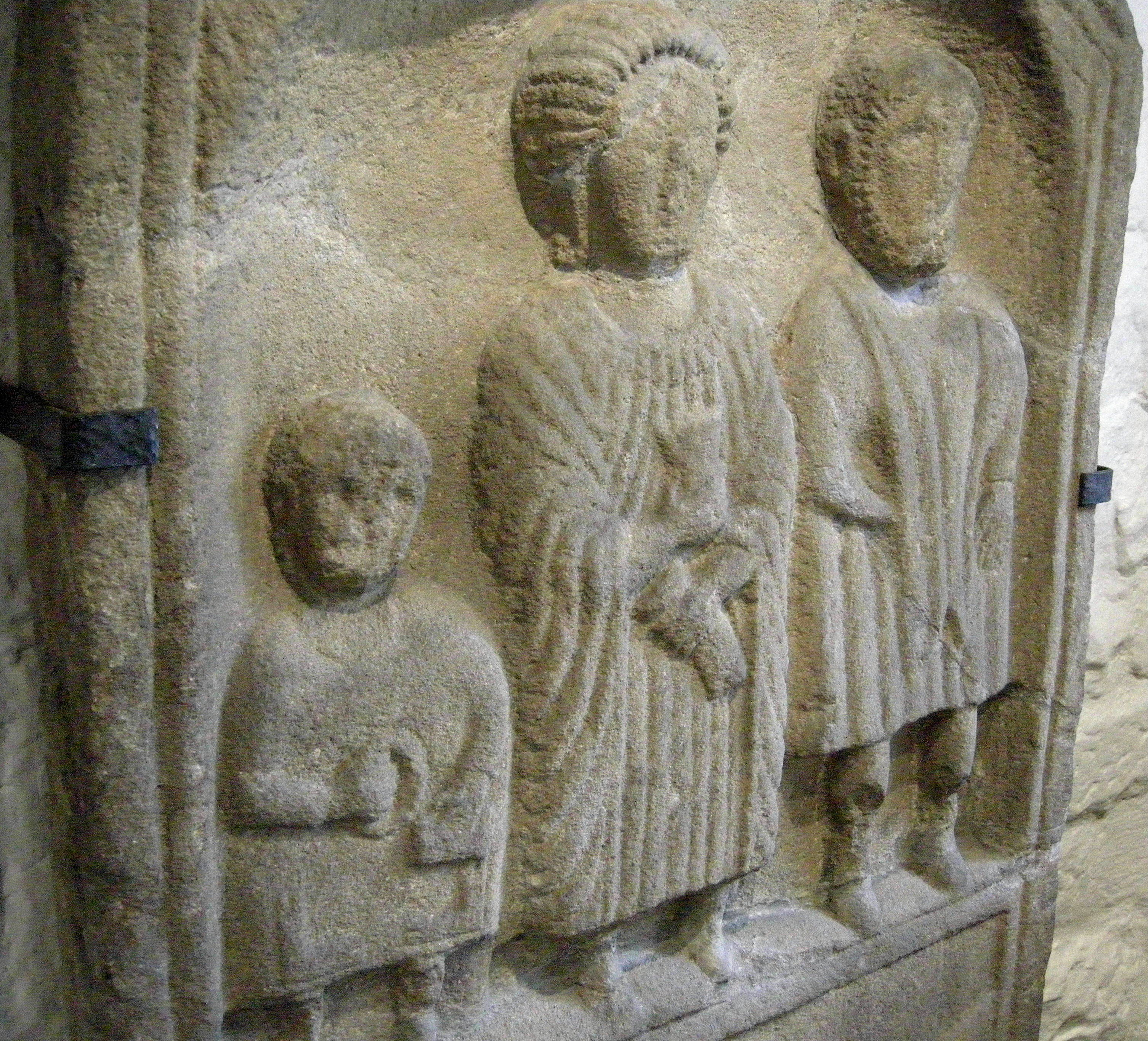 Roman bas-relief in sandstone of a family, in Manor House Museum, Ilkley.